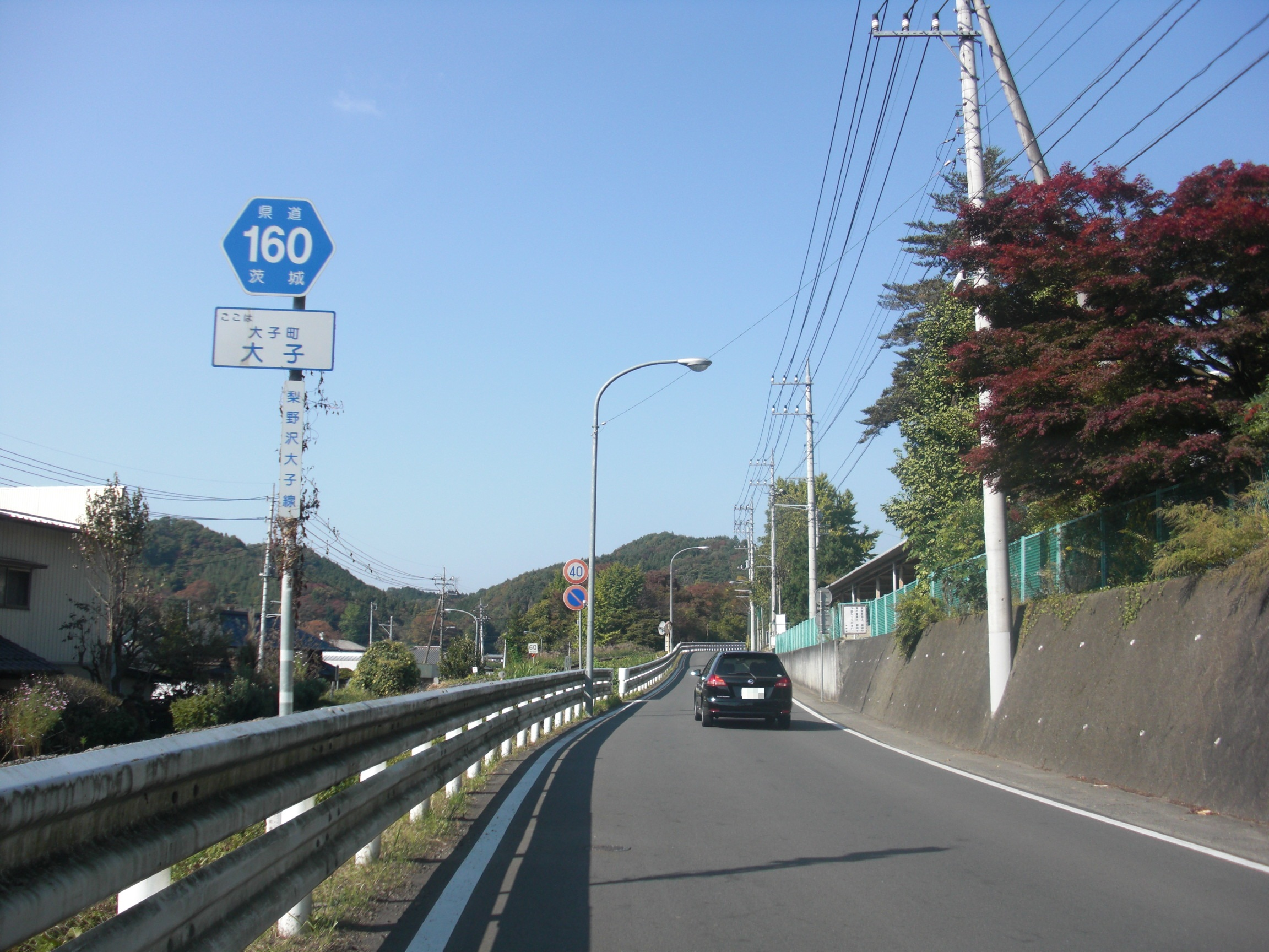 This is the Ibaraki prefectural road No. 160 Nashinosawa-Daigo line in Daigo, Daigo, Ibaraki, Japan. In this picture, right side is Ibaraki prefectural Daigo-Seiryu high school and left side is JR Suigun line.